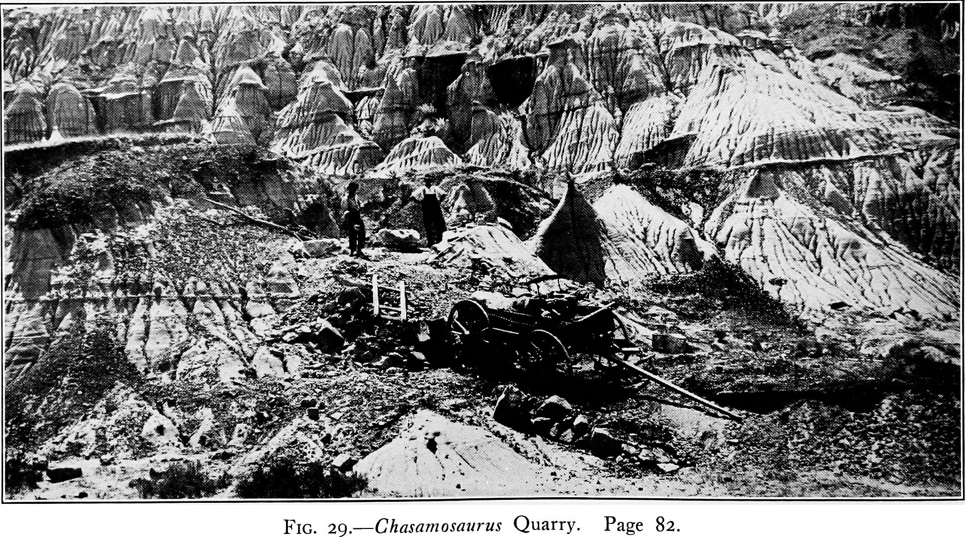 Title: Hunting dinosaurs in the bad lands of the Red Deer River, Alberta, Canada; a sequel to The life of a fossil hunter Year: 1917 (1910s) Authors: Sternberg, Charles H. (Charles Hazelius), b. 1850 Subjects: Paleontology; Dinosaurs Publisher: Lawrence, Kan. , C. H. Sternberg Text Appearing Before Image: ' Text Appearing After Image: '